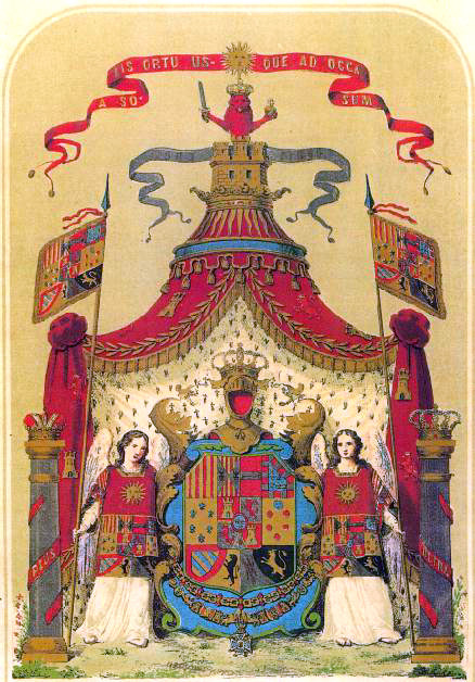 Greater Arms of the Spanish Monarchy since Charles III to 1931, House of Bourbon (1761-1868 / 1875-1931)